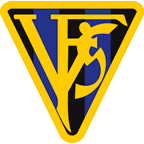 Logo from FV Saarbrücken (today: 1. FC Saarbrücken) from 1924 - 1943